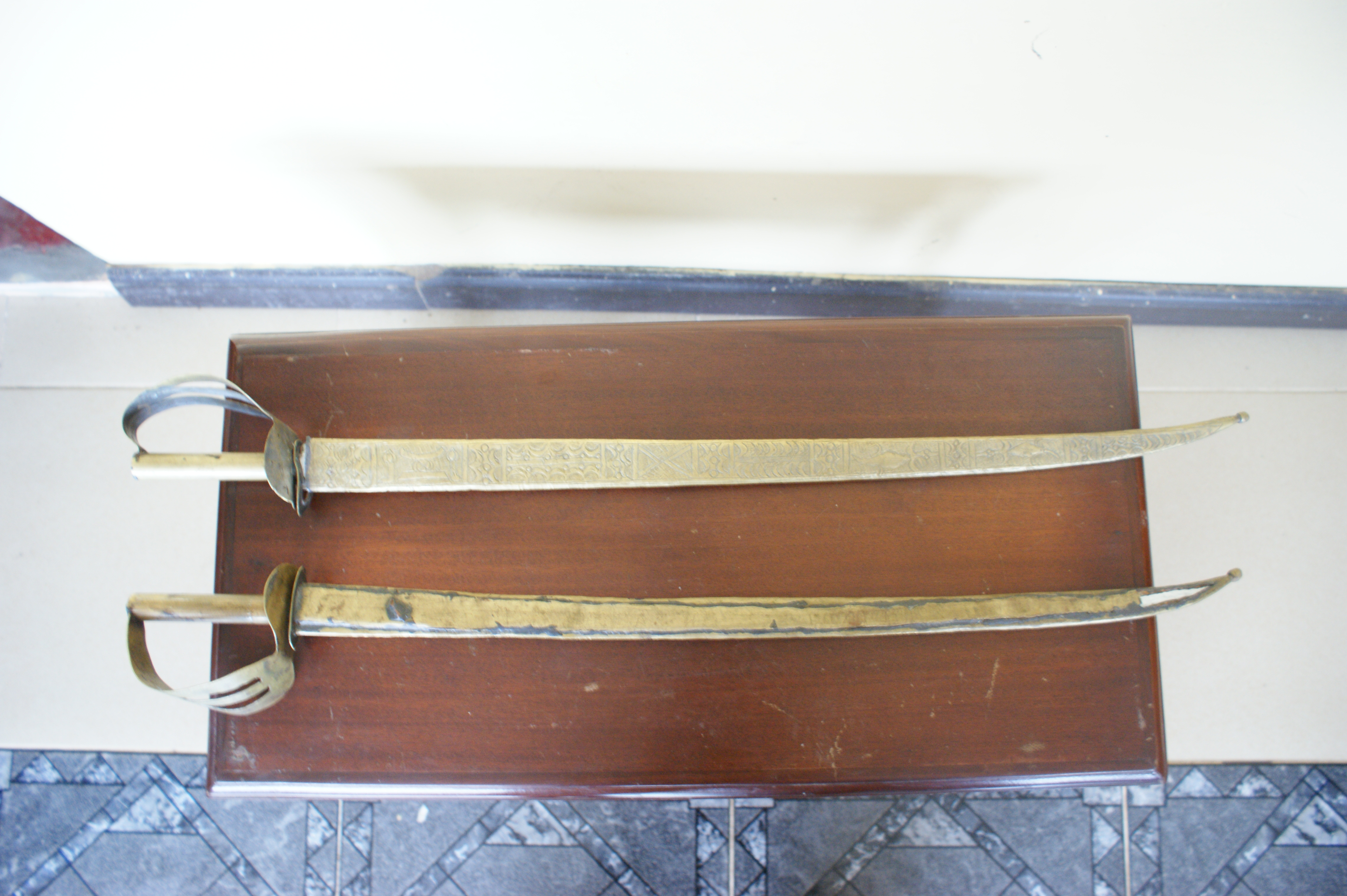 •Twi/ English Name: Ako Afena/Sword •Material: Brass •Usage: Self-defense during wars. •Brief Introduction: Part of weaponry used during ancient wars.